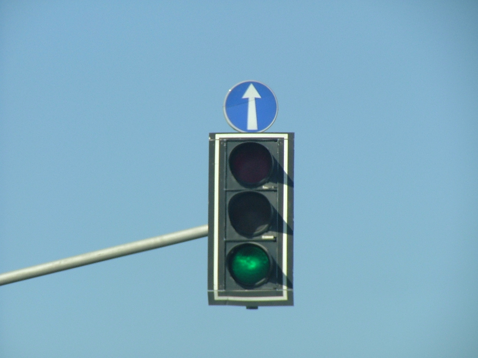 A green light in Israel, indicating that the driver can go forward.